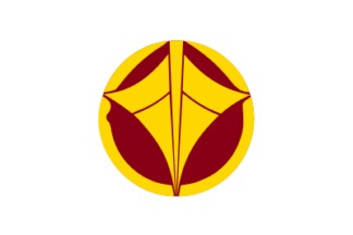 Flag of Funahashi Toyama